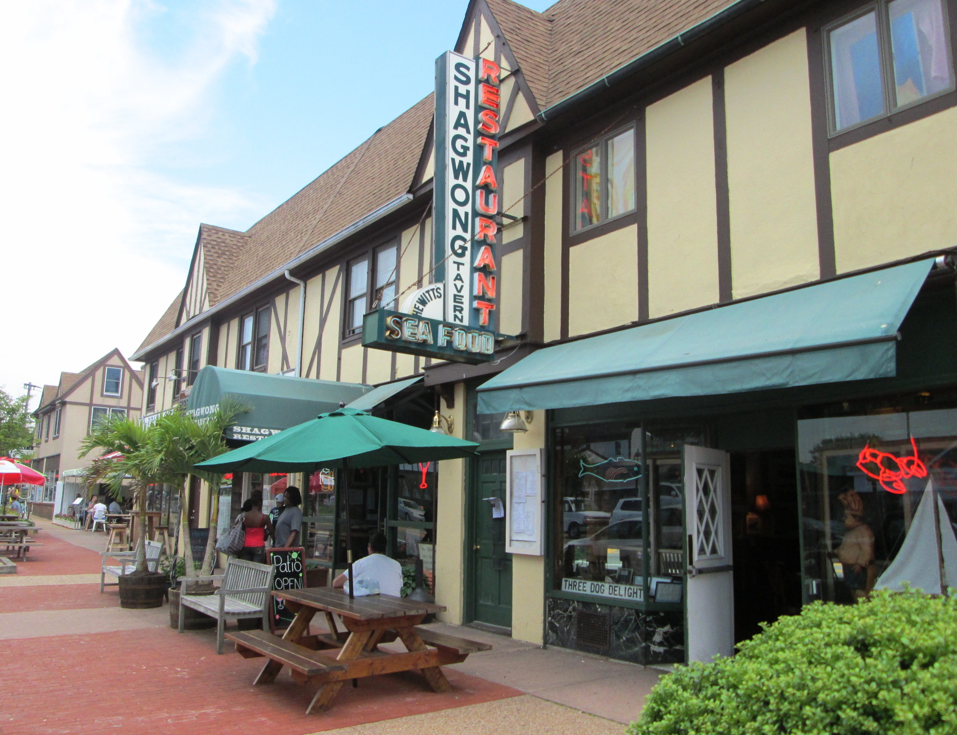 Shops on the south side of Main Street in Montauk, New York. The Tudor Revival architecture dates from Carl G. Fisher's failed attempt to make Montauk the Miami Beach of the north.